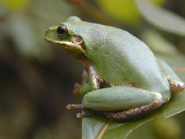 A squirrel treefrog (Hyla squirella)